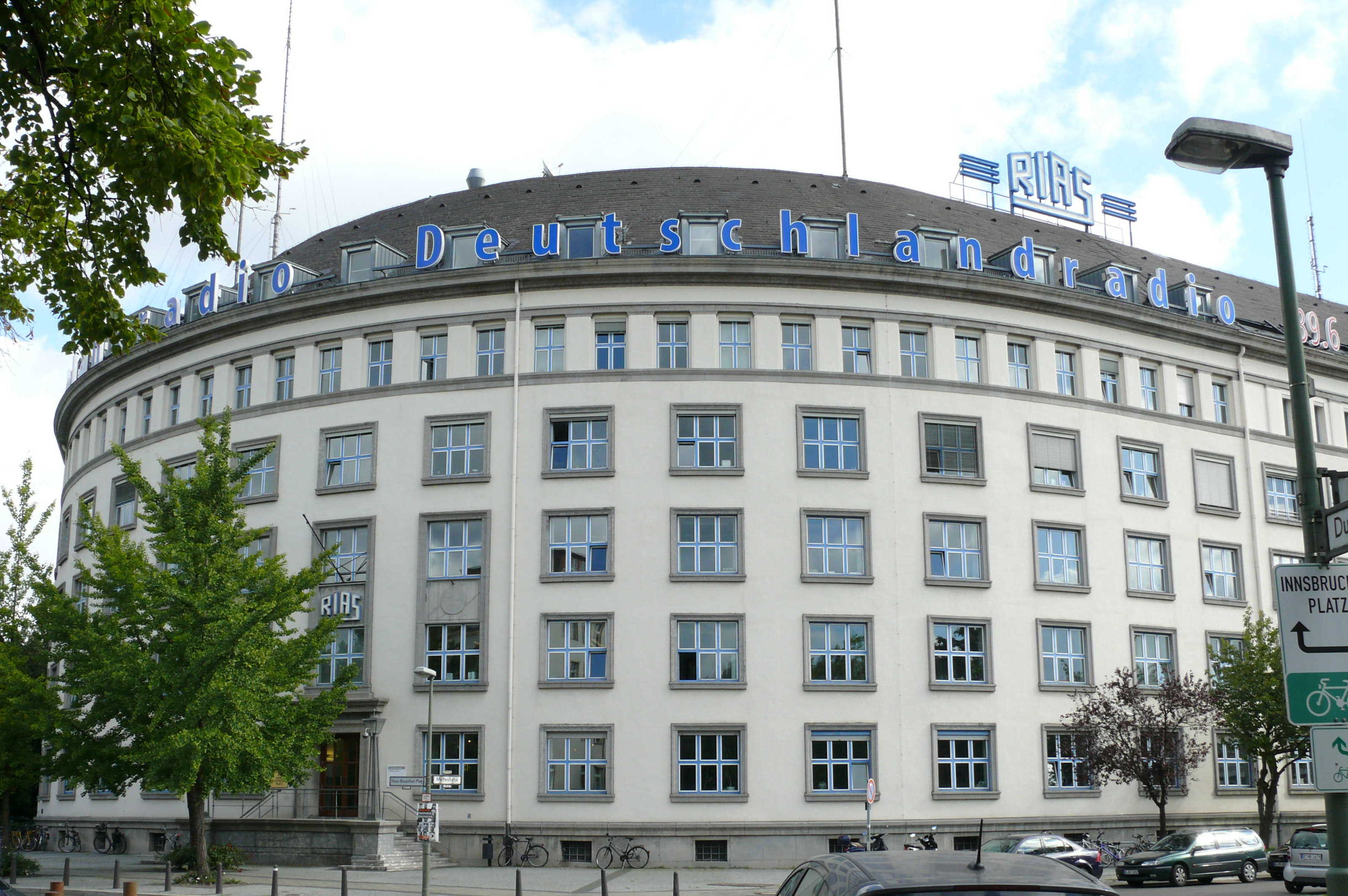 Berlin-Schöneberg RIAS-Gebäude